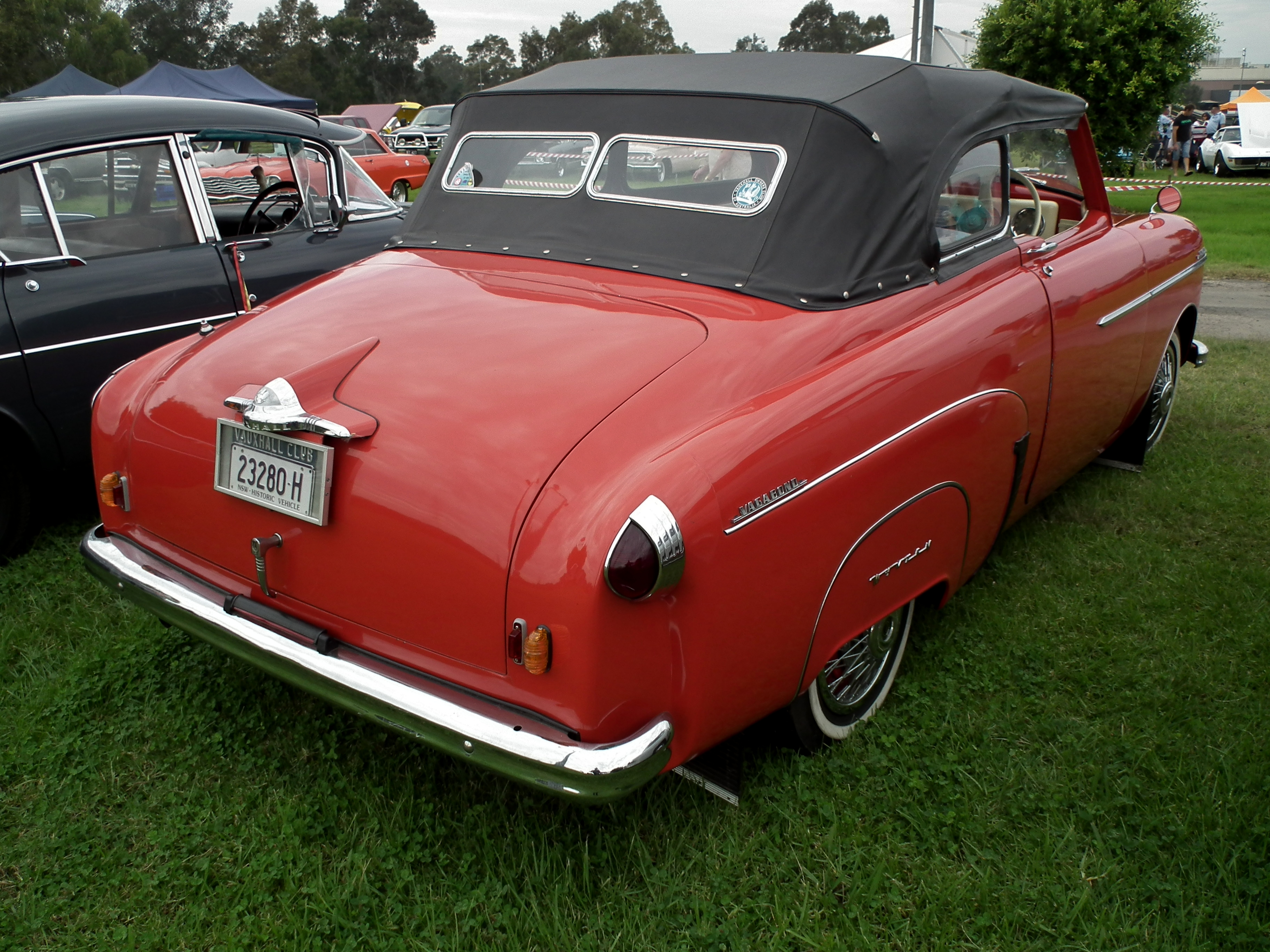 1952 Vauxhall Wyvern Vagabond convertible. Designed and built by Holden. Taken at the General Motors Display Day, held in the grounds of Penrith Panthers Club, Penrith NSW.